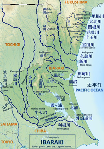 Hydrography of Ibaraki Prefecture: rivers, lakes and lagoons.